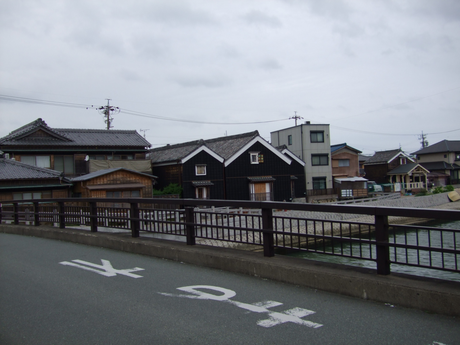 Streets in Kawasaki area, Ise City, Mie, Japan.